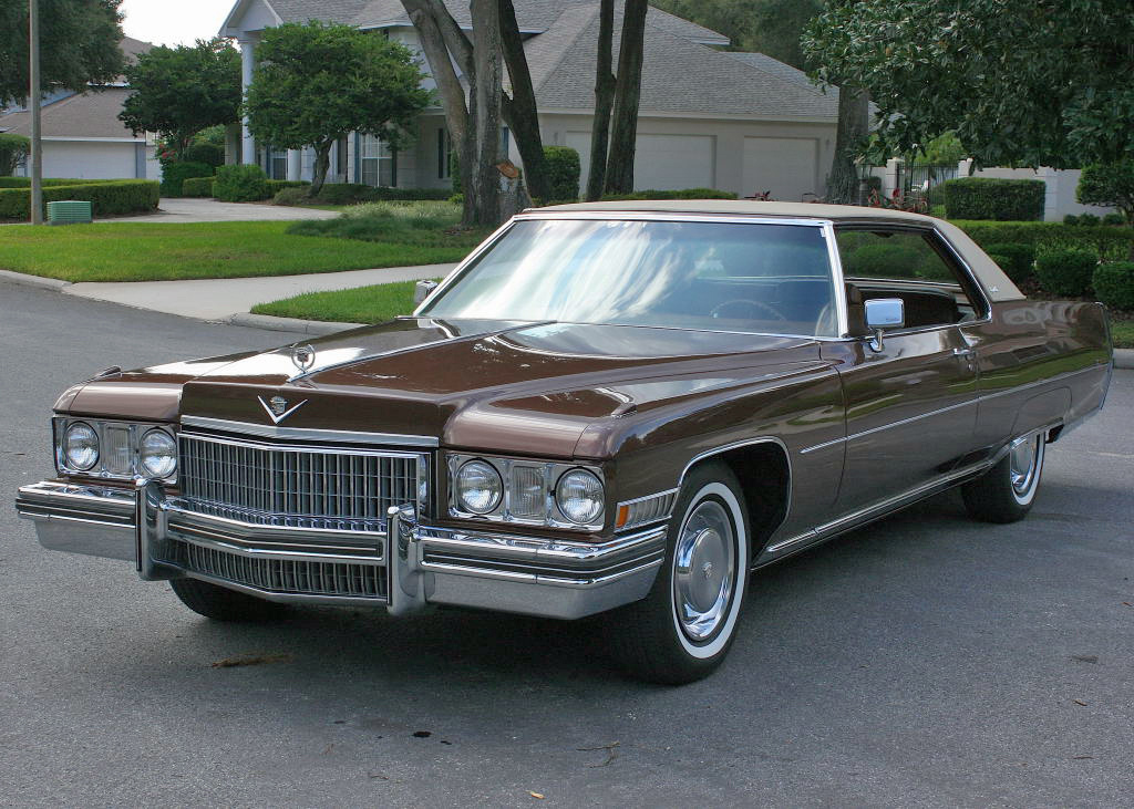 Sold new by Curry Cadillac of Bloomfield, Indiana